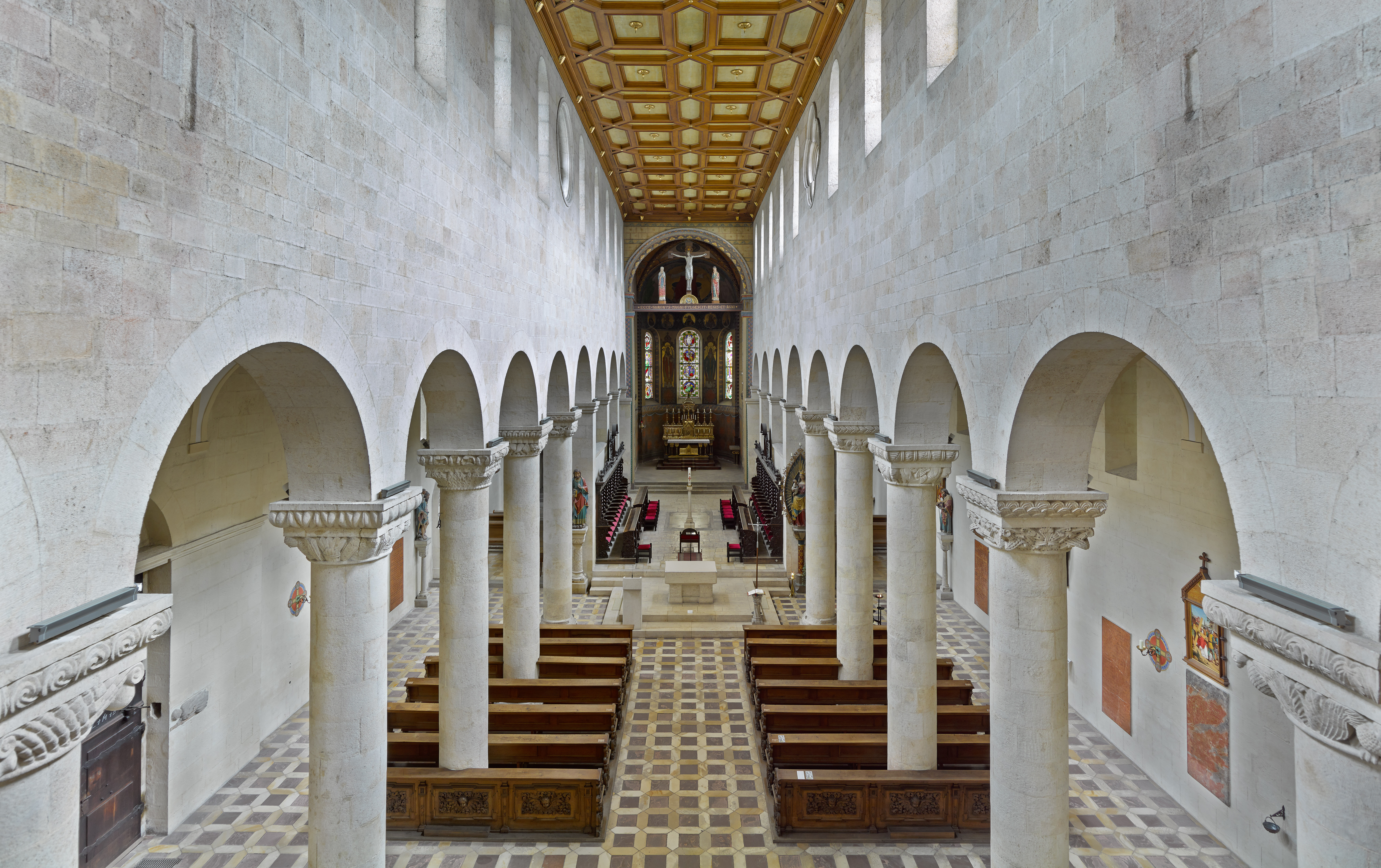 Interior of the Church of St. James in Regensburg, Germany.